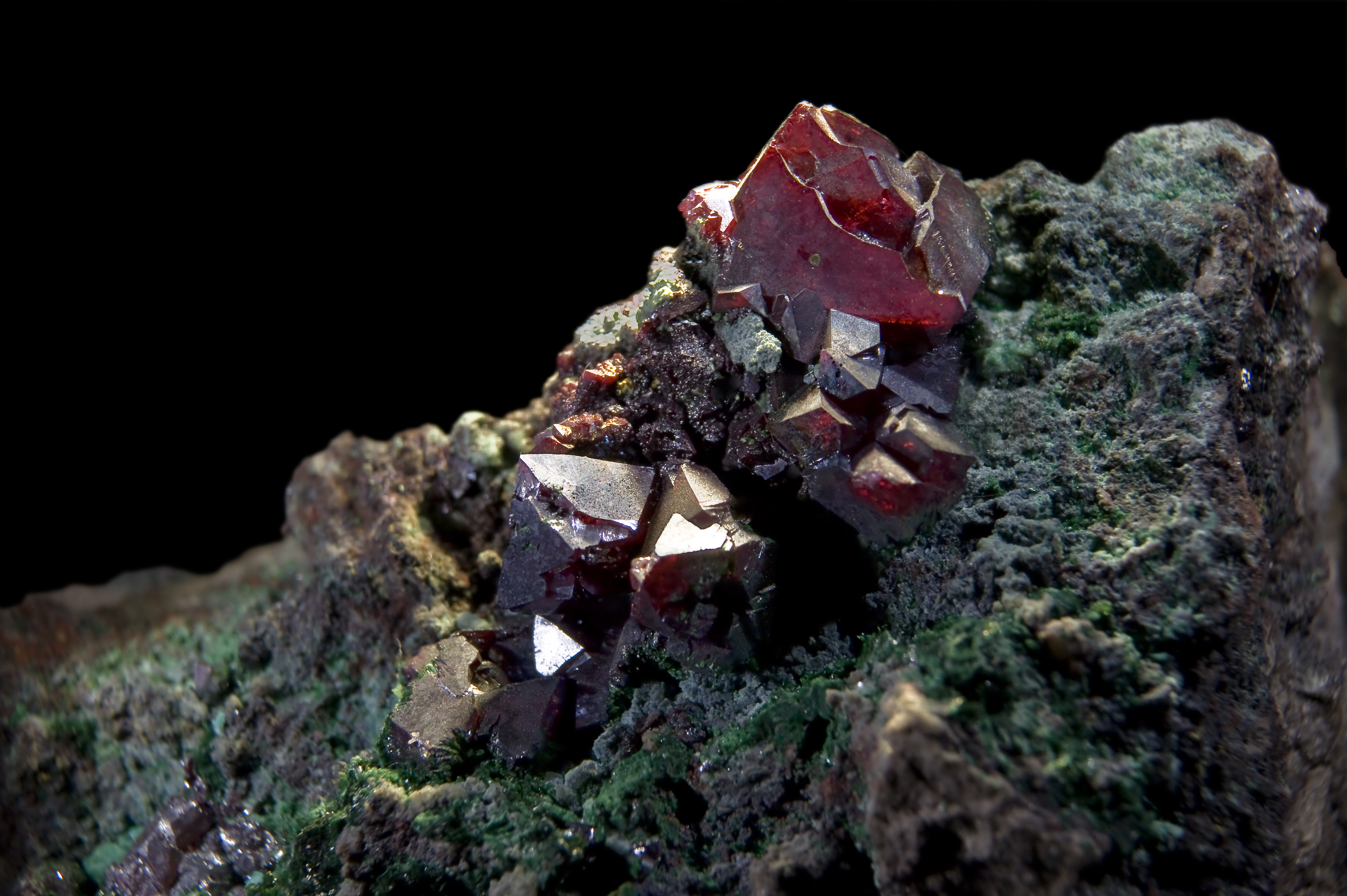 Cuprite with malachite - Dikuluwe Mine, Kolwezi, Western area, Katanga Copper Crescent, Katanga (Shaba), Democratic Republic of Congo (Zaïre) - (View 6.2 cm × 1.5 cm)